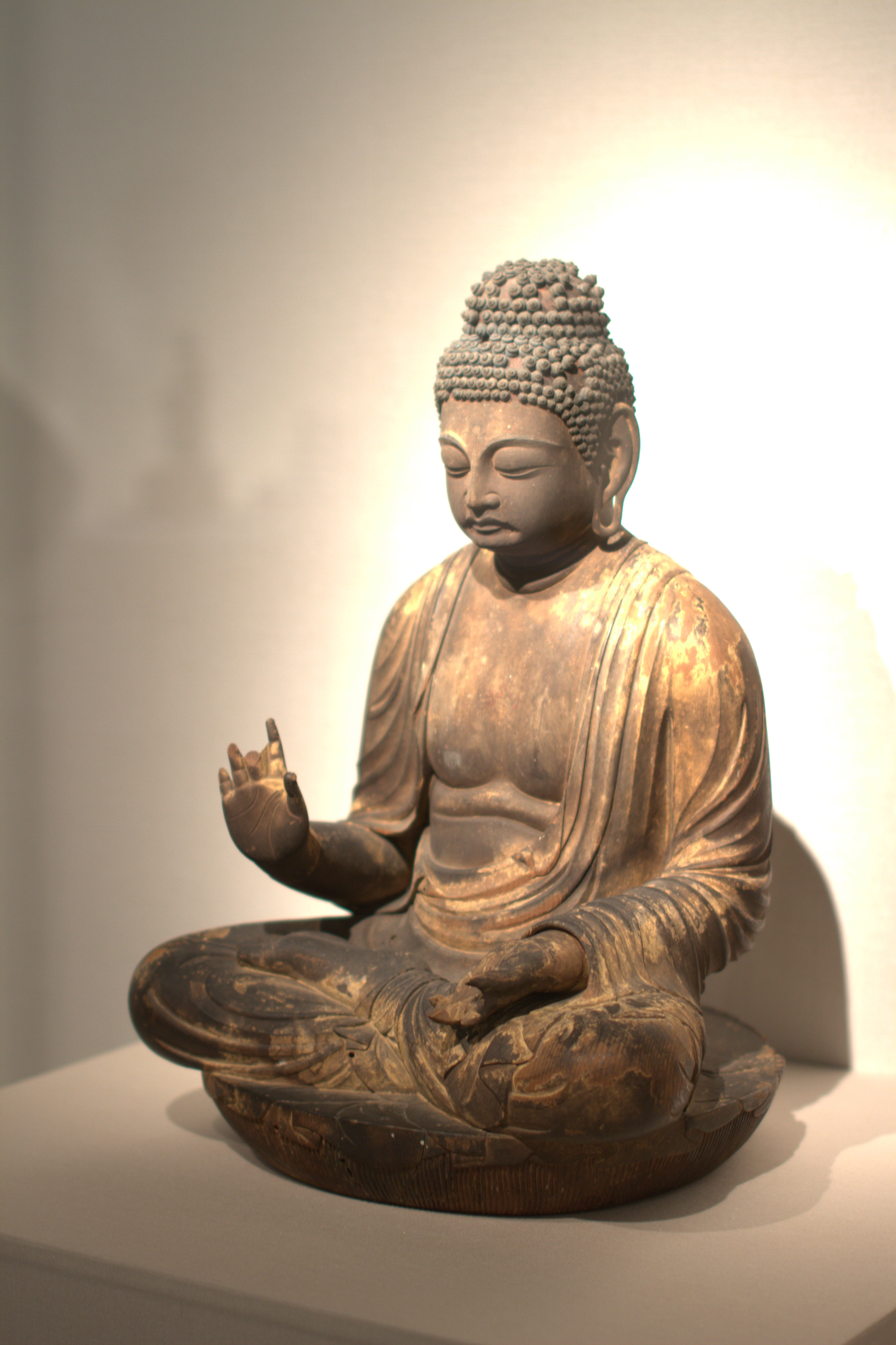 Seated Yakushi Nyorai. Nara National Museum (Japan). National Treasure, Sculpture